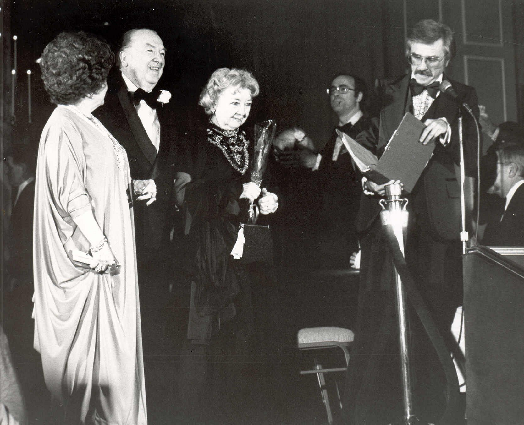 Jack Haley, Sr. - the tin man from The Wizard Of Oz, one week before his death. At right, Gary Owens ("Laugh-In"). Taken at the National Film Society convention, May 1979. NOTE: Permission granted to copy, publish, broadcast or post any of my photos, but please credit "photo by Alan Light" if you can. Thanks.